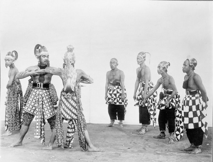 Wayang wong performance 'Jaya Semadi and Sri Suwela' in the palace of the Sultan of Yogyakarta